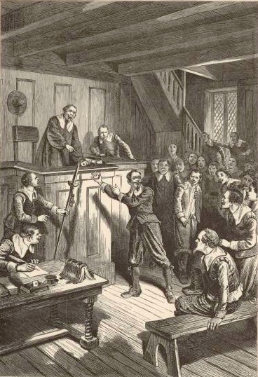 William Coddington sits as judge in the trial of Samuel Gorton in colonial Rhode Island.